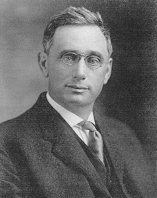 Photo of Louis Brandeis